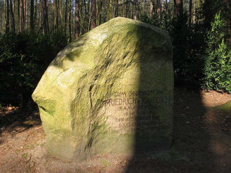 „Dauerwaldrevier“ (german for: Permanent-forest-area) Bärenthoren in the nature park Fläming, gravestone Friedrich von Kalitsch. The special forest was founded in 1884 by the forester Friedrich von Kalitsch. The village Bärenthoren is part of the municipality Polenzko and belongs to the district Anhalt-Zerbst, state Saxony-Anhalt, Germany.